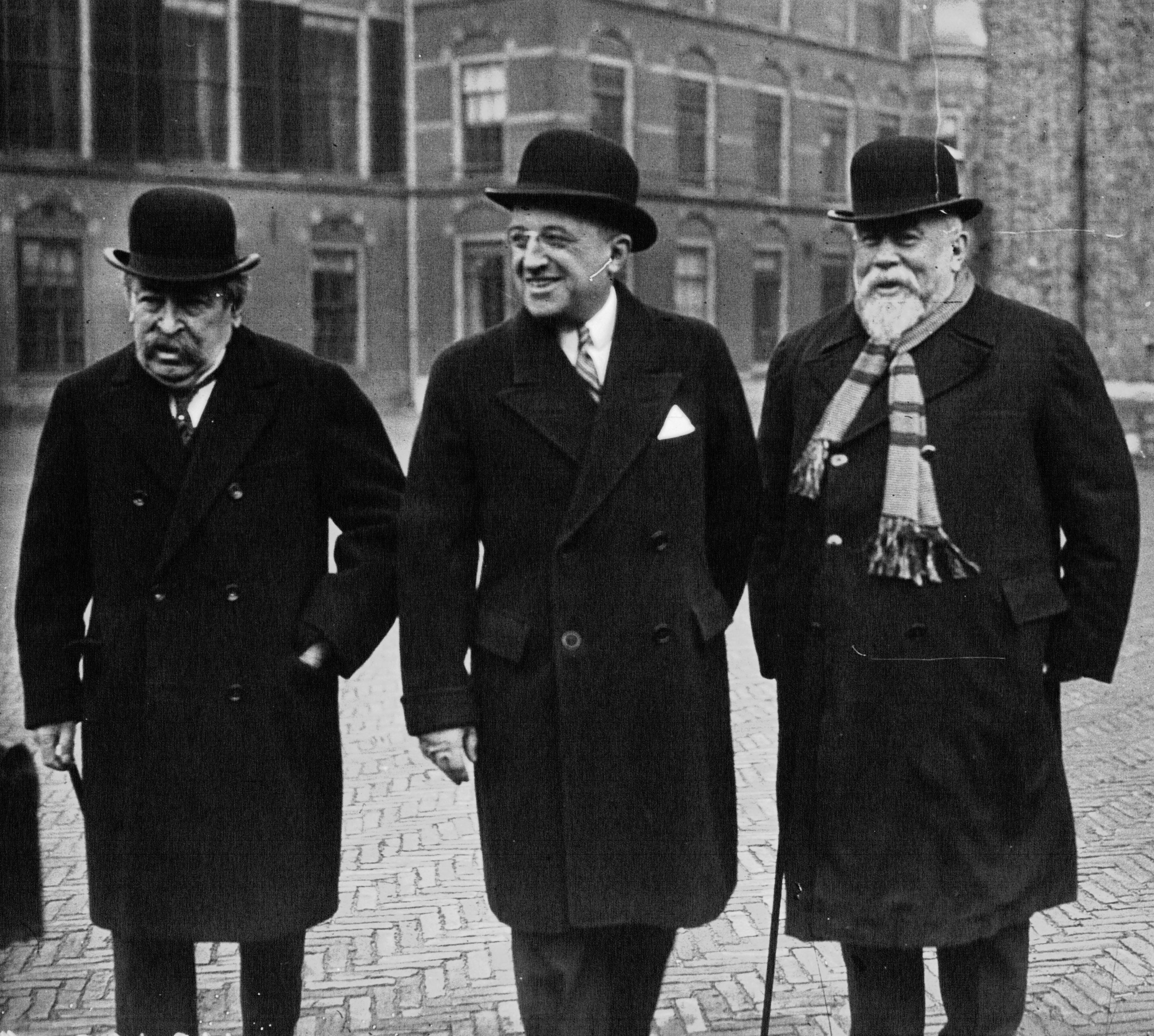 Aristide Briand, André Tardieu, Henry Chéron at the Hague Convention in 1930.